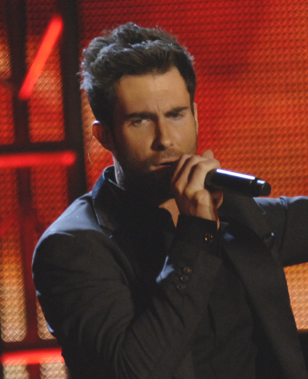 Adam Levine from Maroon 5 performs at the Neighborhood Ball in downtown Washington, D.C.